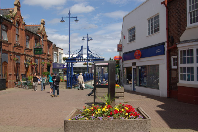 Foster Street, Stourbridge Pedestrianised street leading off High Street; the subway leads to Stourbridge Town station. The pub on the left is called 'Glass', which may or may not be a reference to Stourbridge's traditional glassmaking industry.